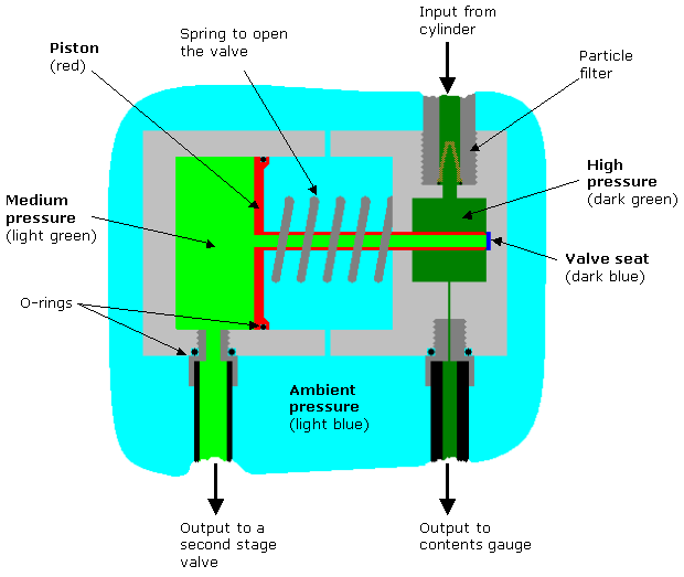 Diagram of the internal components of a balanced piston-type diving regulator. Diagram is missing HP O-ring in regulator body around piston between HP air chamber and ambient (water) pressure chamber.